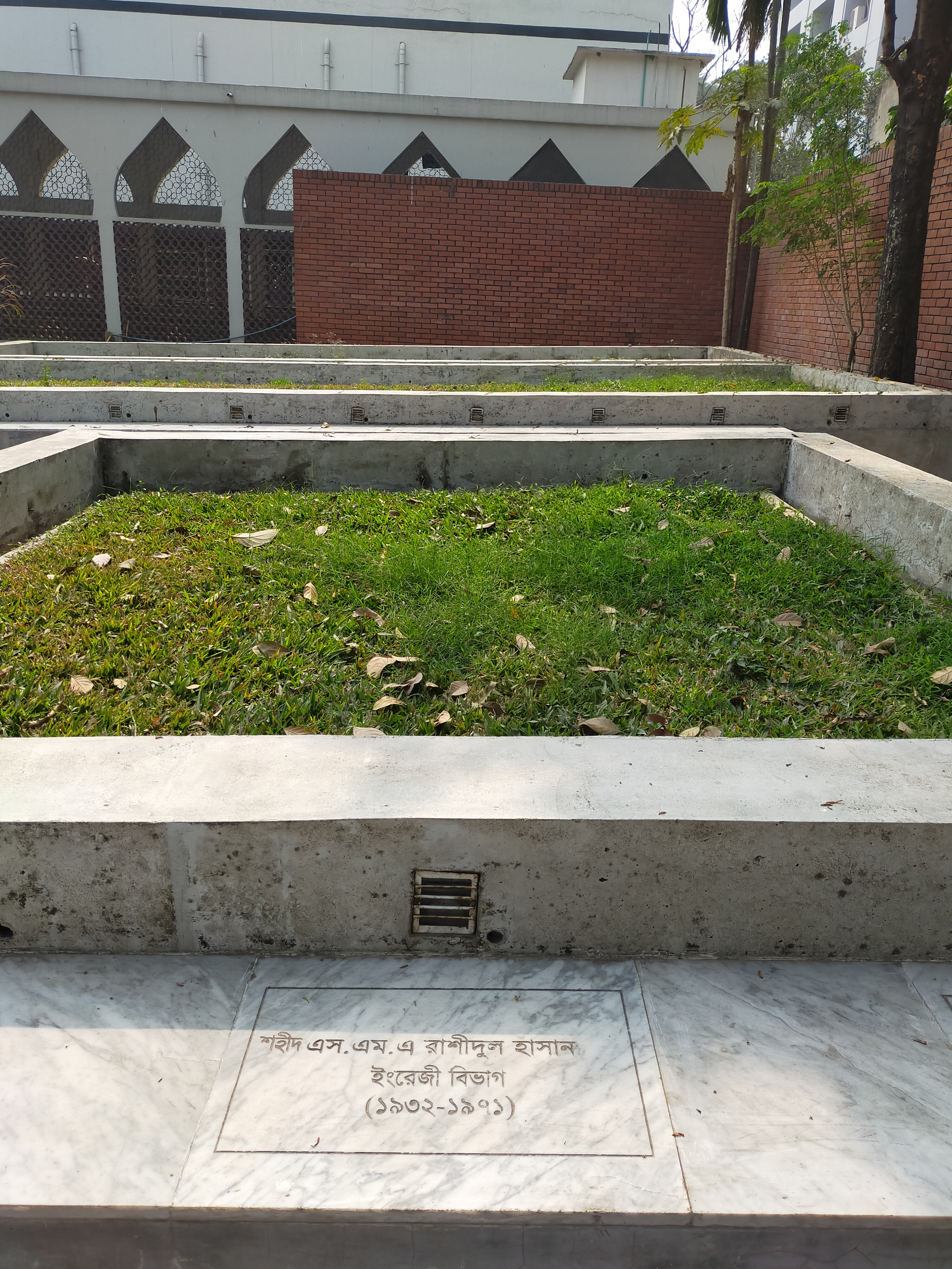 Grave of SMA Rashidul Hasan (1932–1971) by the side of Dhaka University central mosque, a Bengali educationist and a martyred intellectual of 1971.